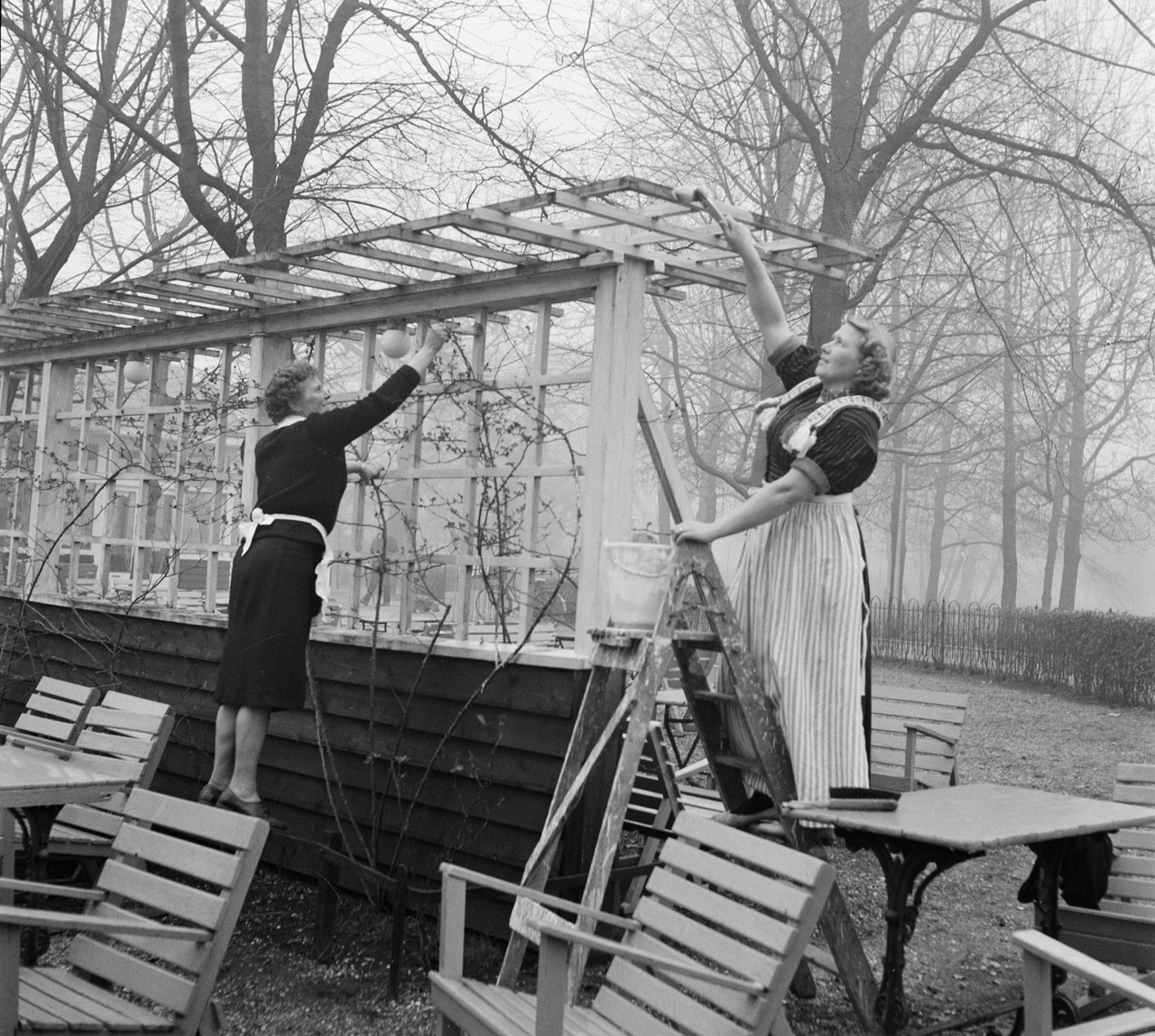 Nationaal Archief Beschrijving: Voorjaarsschoonmaak in het Vondelpark. Datum: 8 maart 1961 Vervaardiger: Anefo / Nijs, Jac. de Bestanddeelnummer: 912-1983 URL: Voor meer informatie over het Nationaal Archief: Voor meer foto's uit deze en andere collecties, bezoek onze Beeldbank:, U kunt ons helpen onze kennis van de fotocollecties te verrijken door tags en commentaren toe te voegen. Herkent u mensen of locaties of heeft u een bijzonder verhaal te vertellen bij één van de foto's, laat dan een reactie achter (als u ingelogd bent bij Flickr) of stuur een mailtje naar